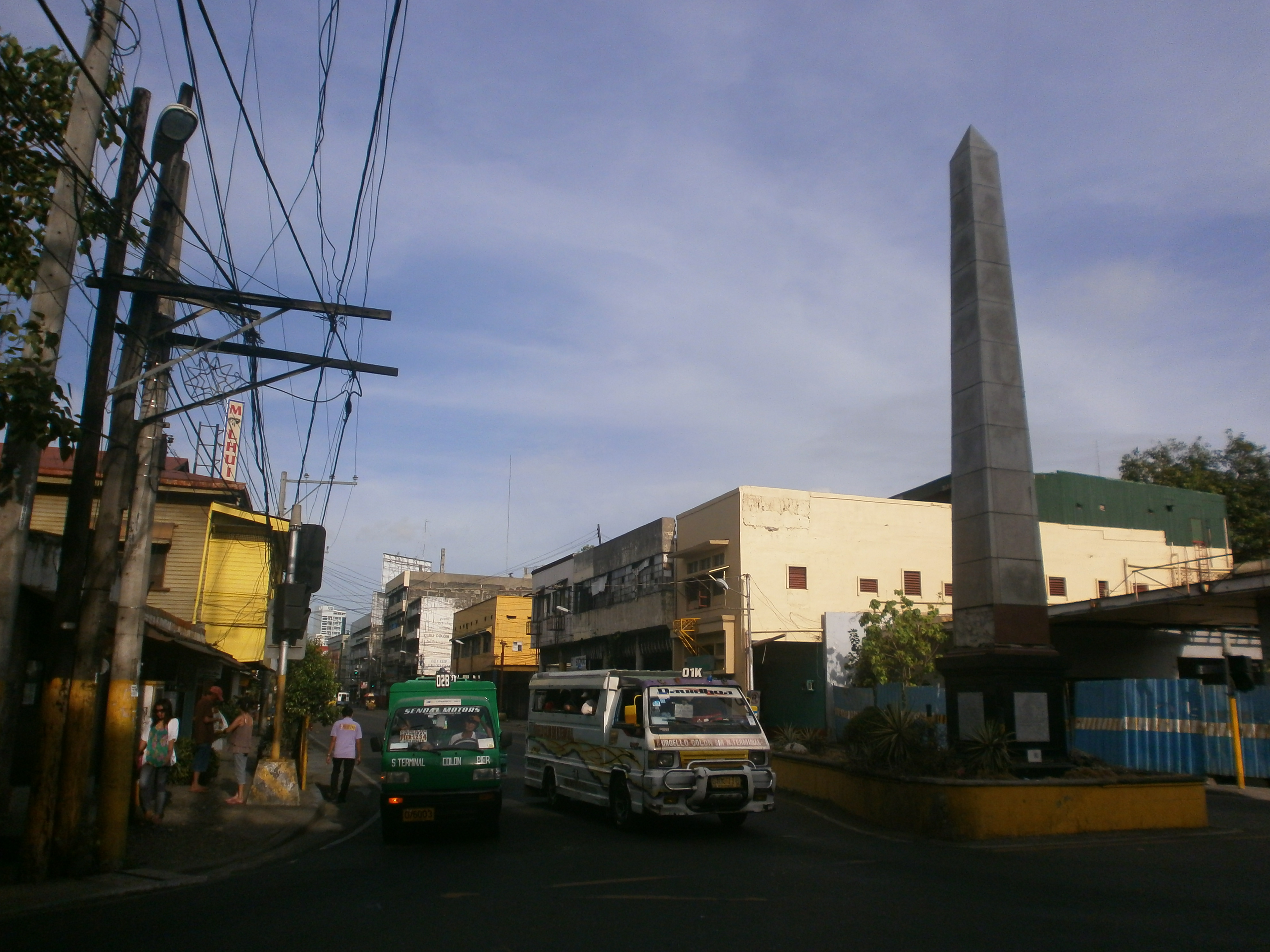 a historical marker was installed the obelisk. Colon Street is the oldest street in the Philippines located in Parian District, Cebu City